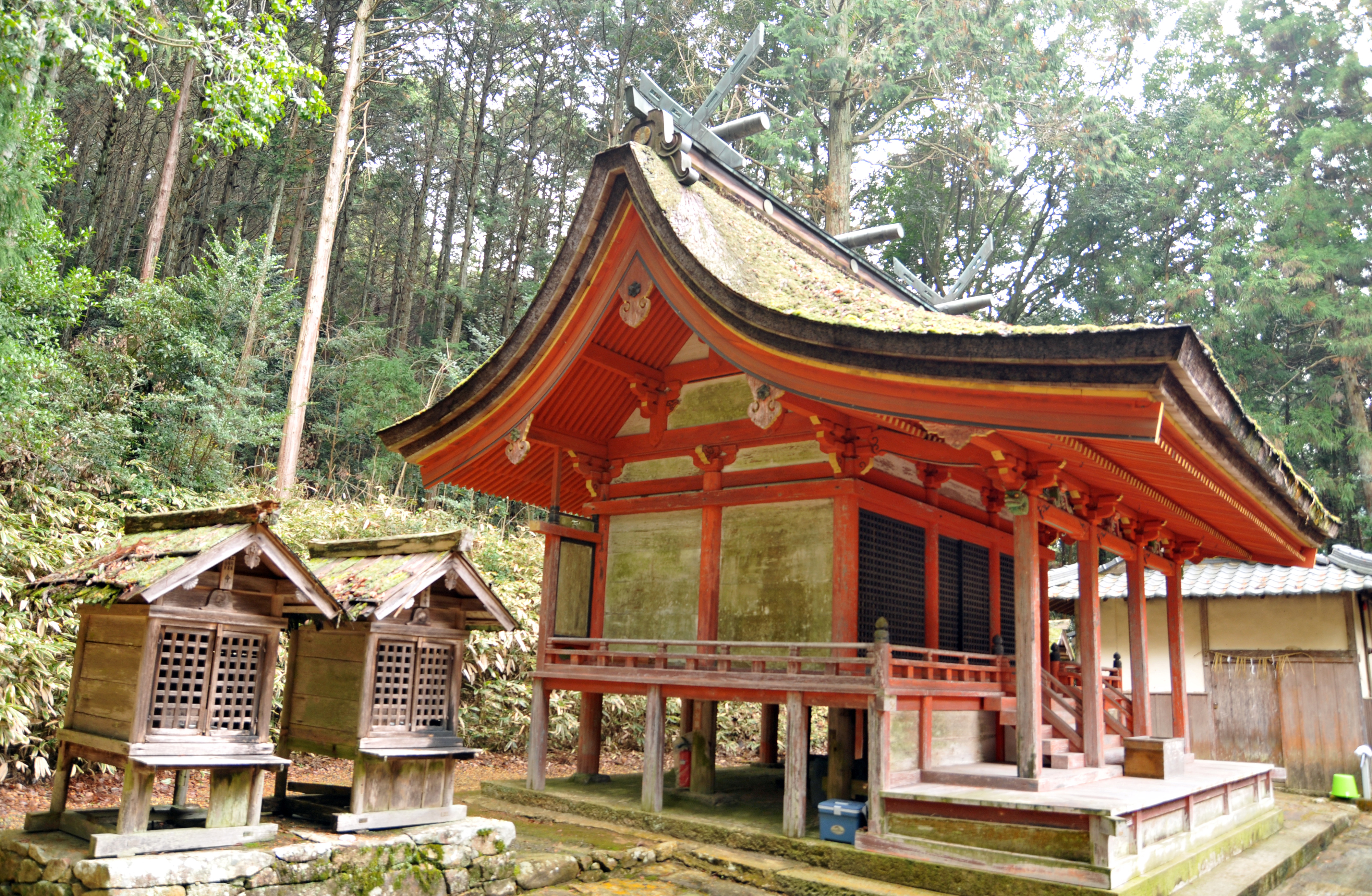 Main shrine (Japan's national important cultural property), Kamikamogawa Sumiyoshi jinja